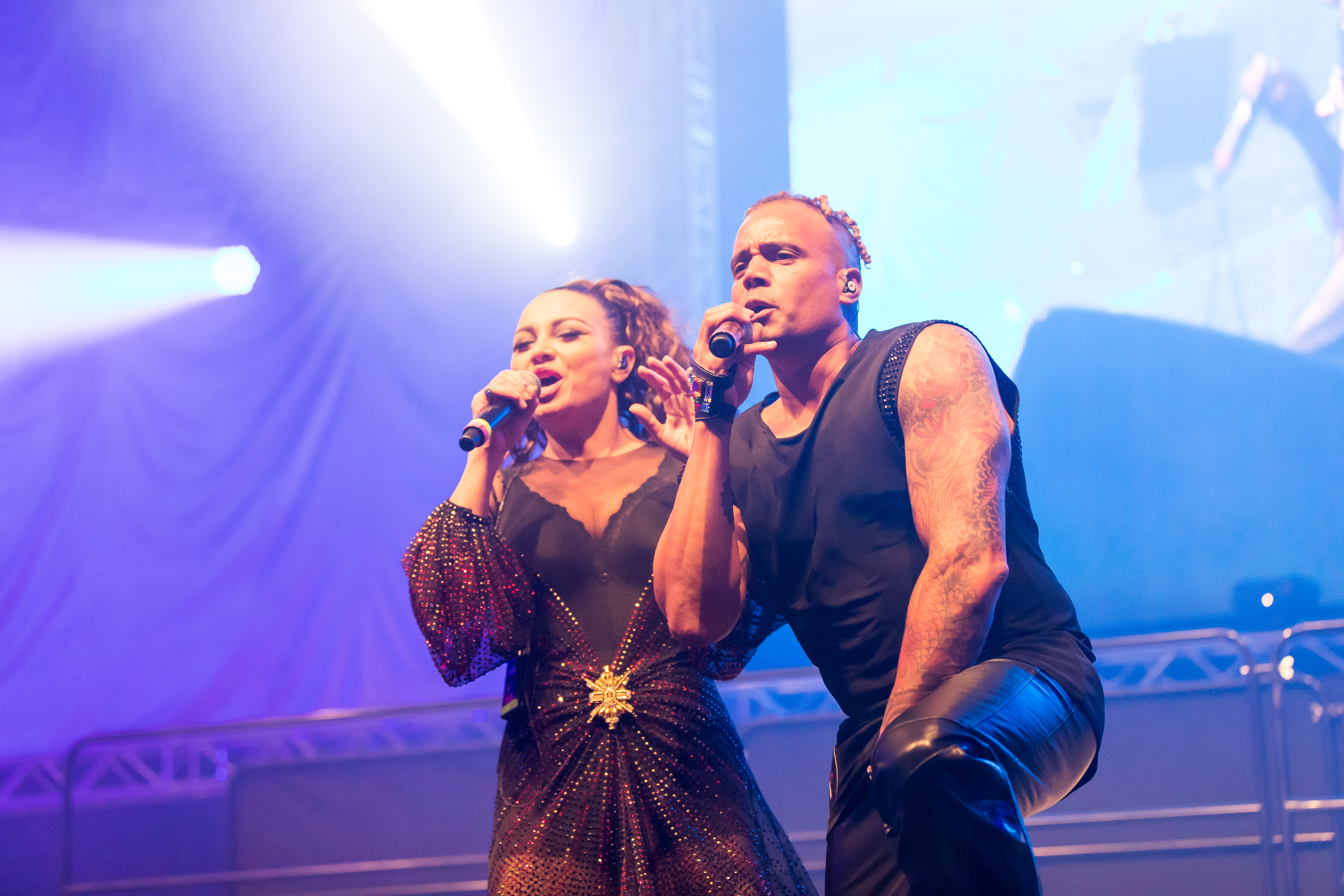 2 Unlimited during Sunshine Live - 90er Live on Stage at Maimarkt Halle, Mannheim, Baden Württemberg, Germany on 2016-11-27, Photo: Sven Mandel DJ Falk, E-Rotic, Twenty 4 Seven, Rednex, Vengaboys, Masterbox feat. Beatrix Delgado, 2 Brother on the 4th Floor, 2 Unlimited, Interactive, Charly Lownoise, Marusha